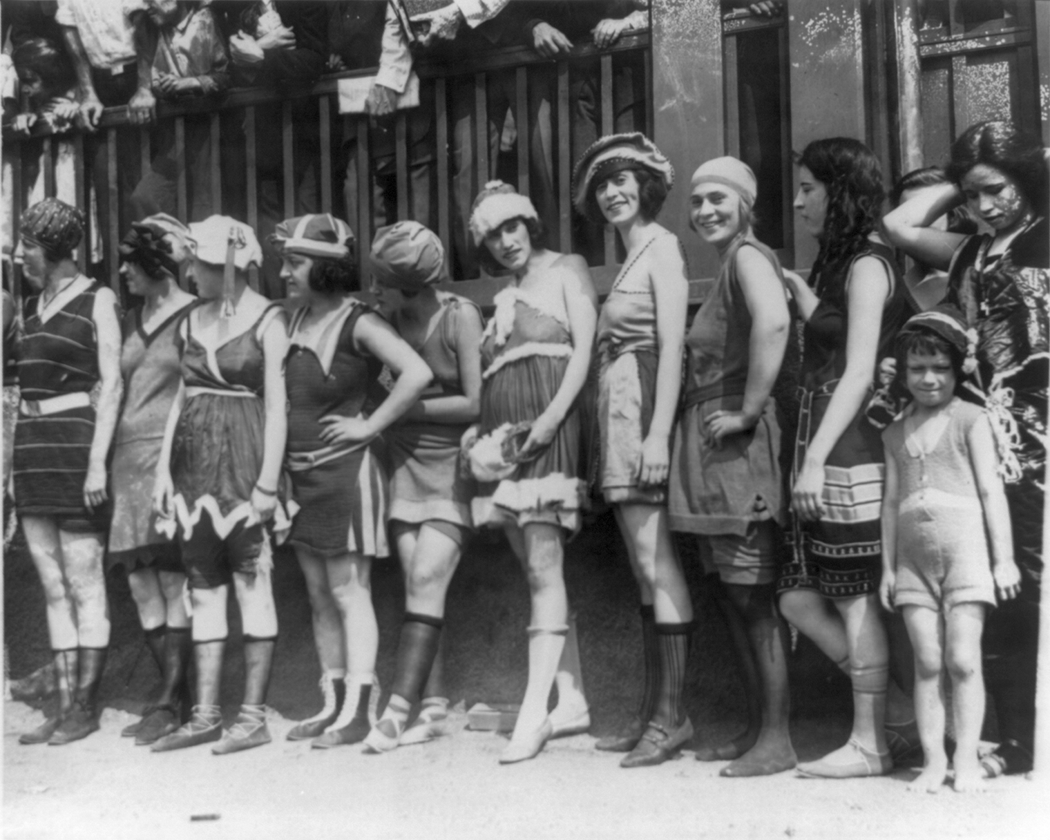 11 women and a little girl lined up for bathing beauty contest, USA